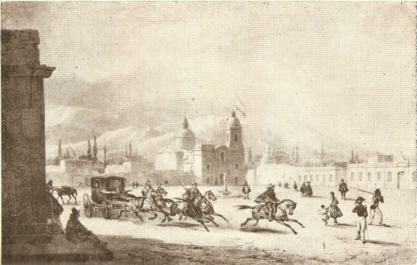 Central Square of Mendoza city (Argentina) in 1826.